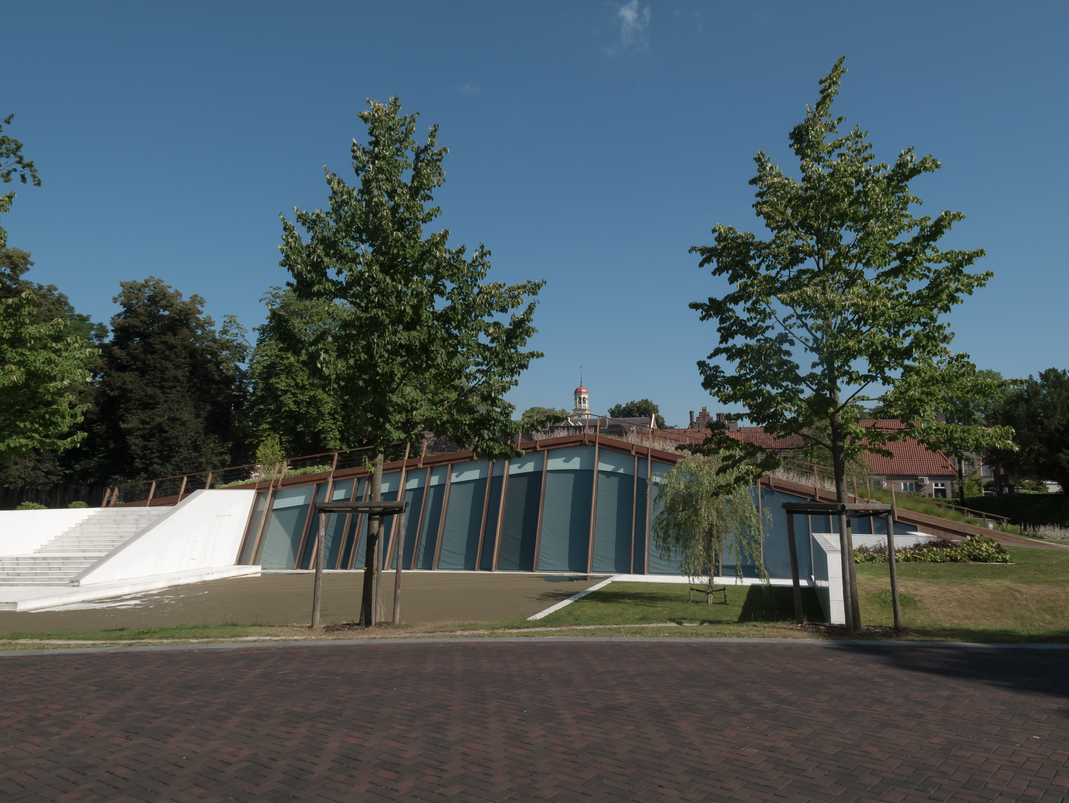 Assen, expansion Drents museum